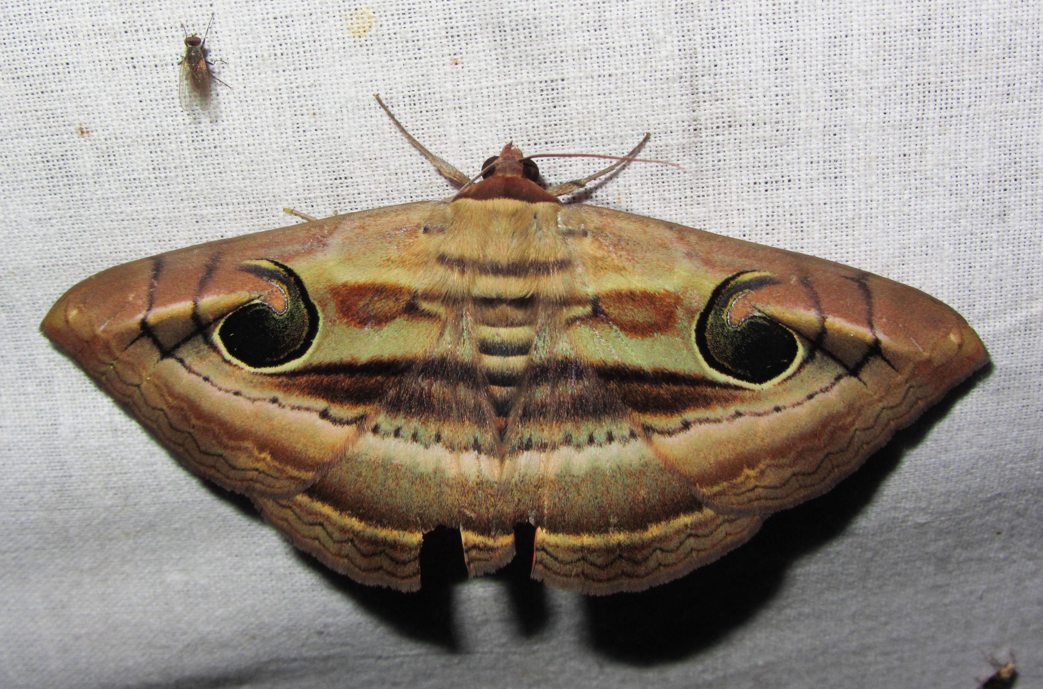 Bomphu, 1940m, Eaglenest, Arunachal Pradesh, India, 24th April 2012 Spirama sp.